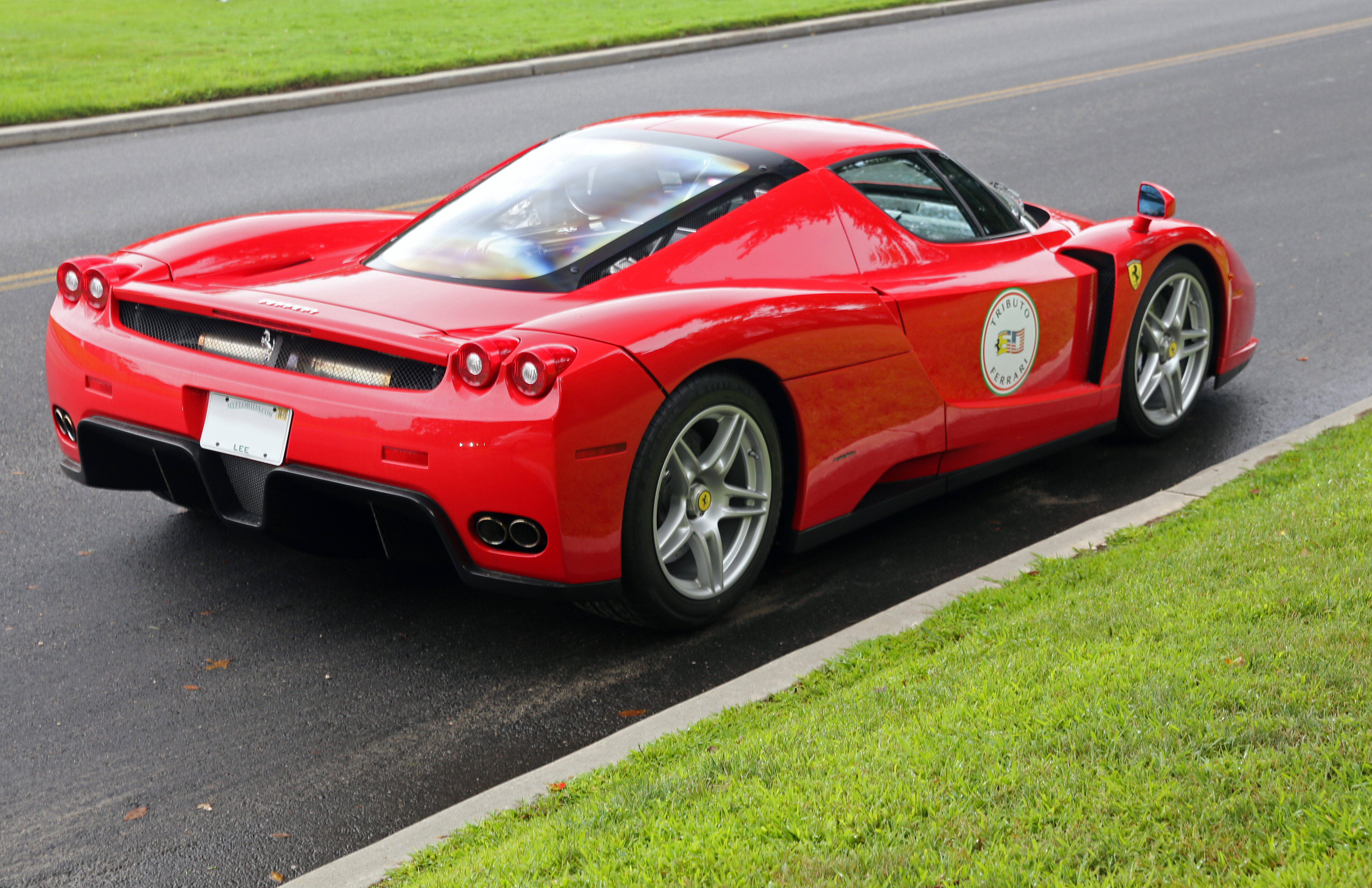 Florida plates and some sort of "Tributo Ferrari" stickers on the sides and front. This caught quite a lot of attention, with pedestrians skipping across the lawn to get a shot.